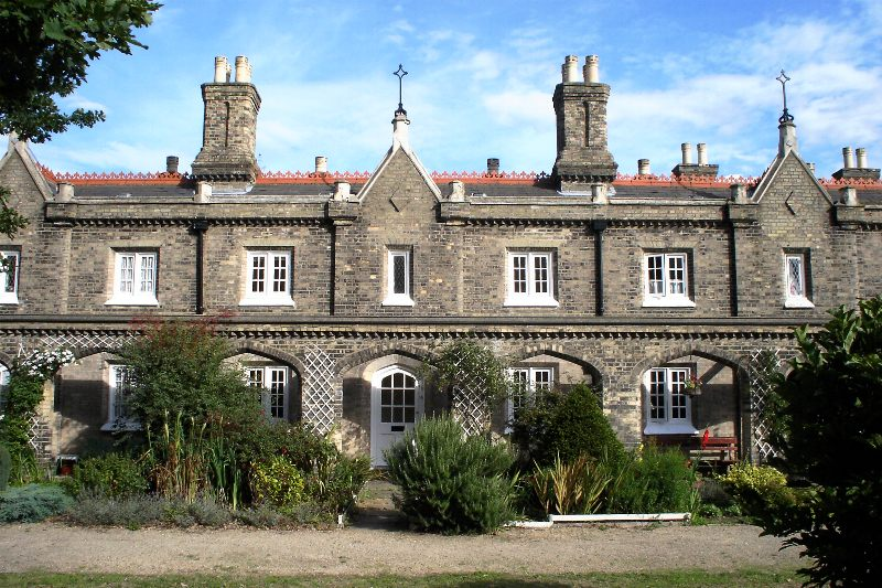 Built around 1840, the Watermen's Almshouses are the oldest Victorian almshouses in Penge.